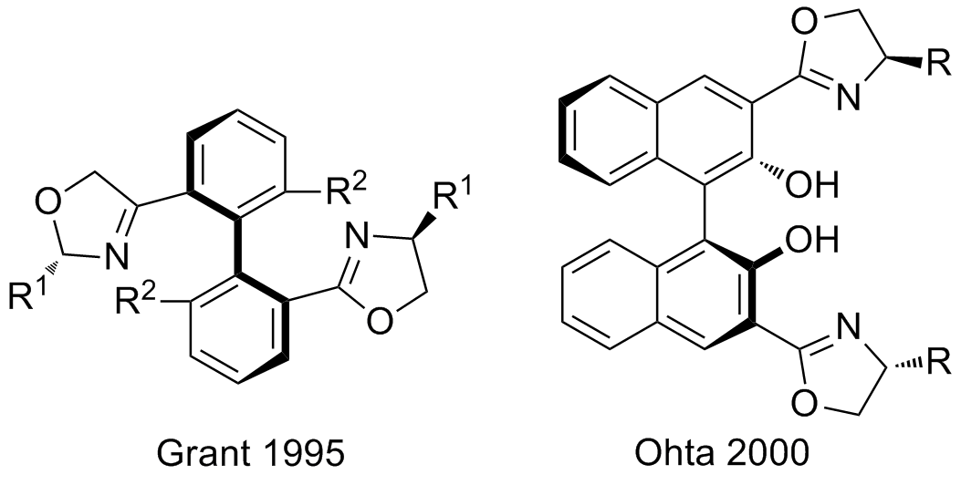 Examples of axially chiral bisoxazoline ligands